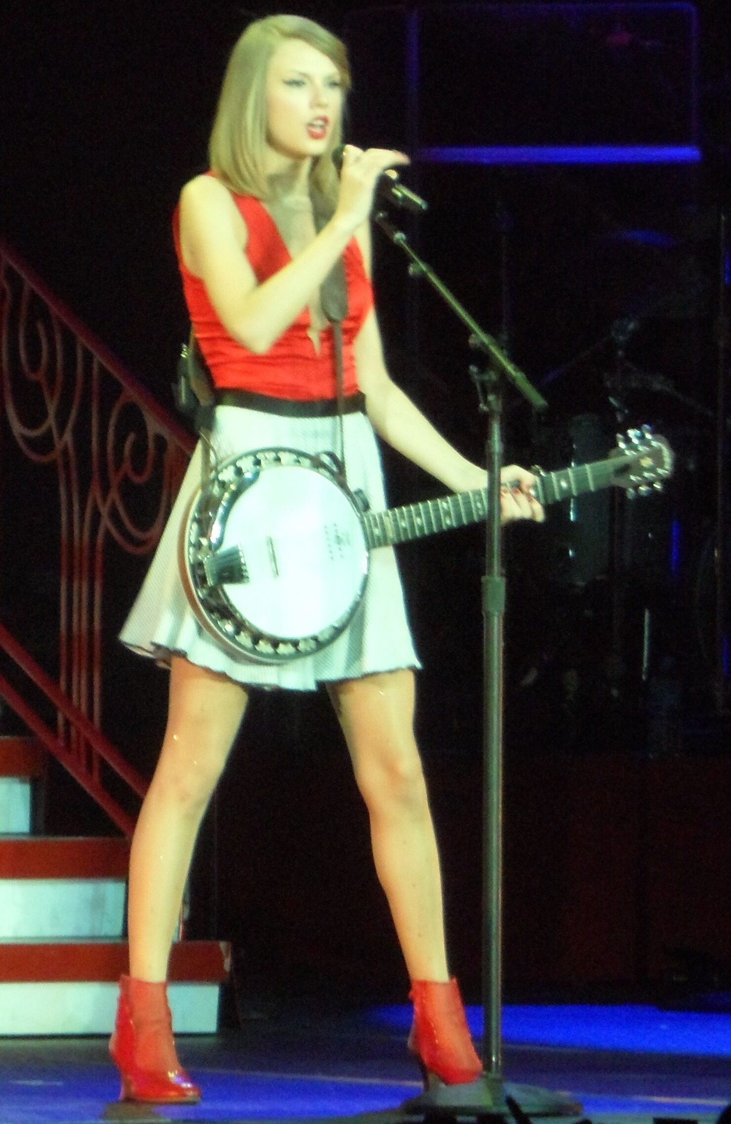 Taylor in Singapore during her RED Tour